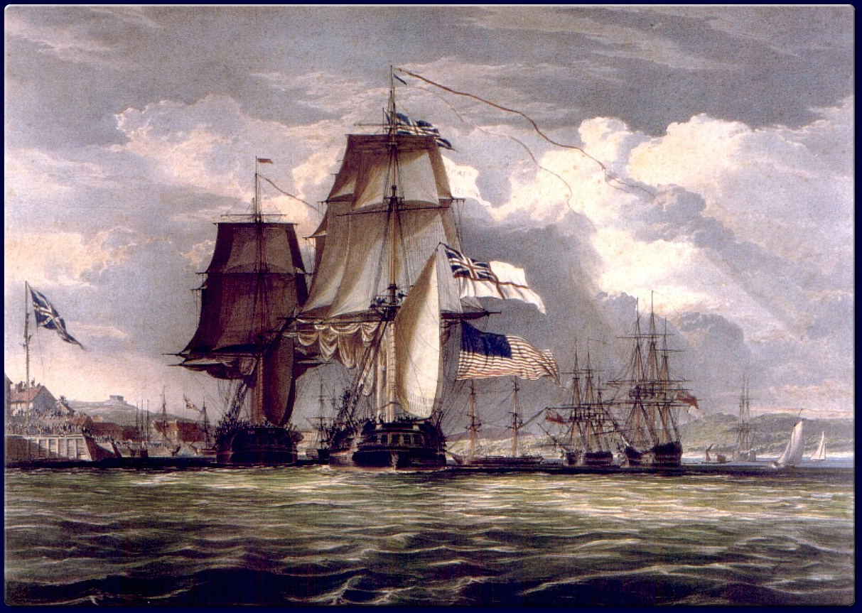 A depiction of the Royal Navy frigate H.M.S. Shannon leading the captured American frigate U.S.S. Chesapeake into Halifax Harbour, Nova Scotia, Canada, in June 1813.